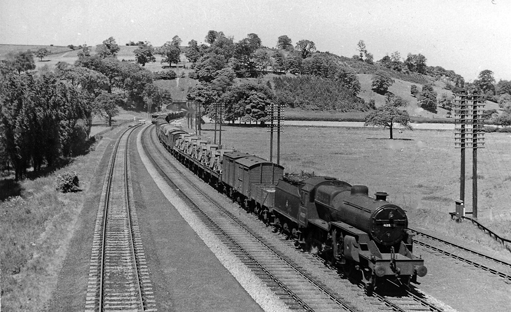 Up freight between Milford Tunnel and Duffield. View northward, towards Ambergate, then Chesterfield, Sheffield etc. also Matlock, Buxton and Manchester on the ex-Midland trunk lines from London, Birmingham etc. via Derby. The train is a Class D freight, running on the Up Slow; a Down freight is visible in the distance on the Down Slow. (In those days this was an idyllic spot in the Derwent Valley on the A6).